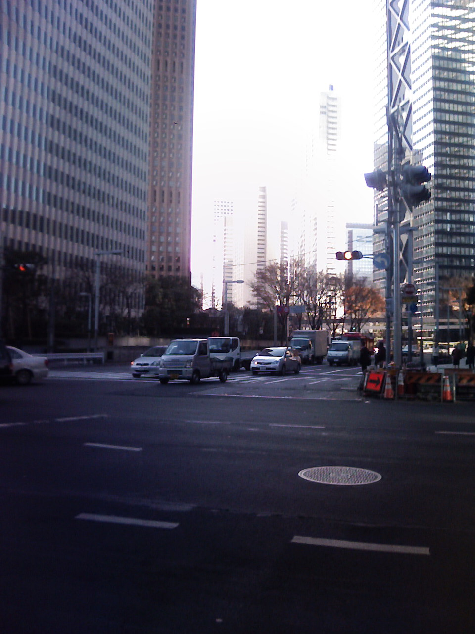 Shinjuku_Police_Stn_cross, Shinjuku-ku, Tokyo, Japan